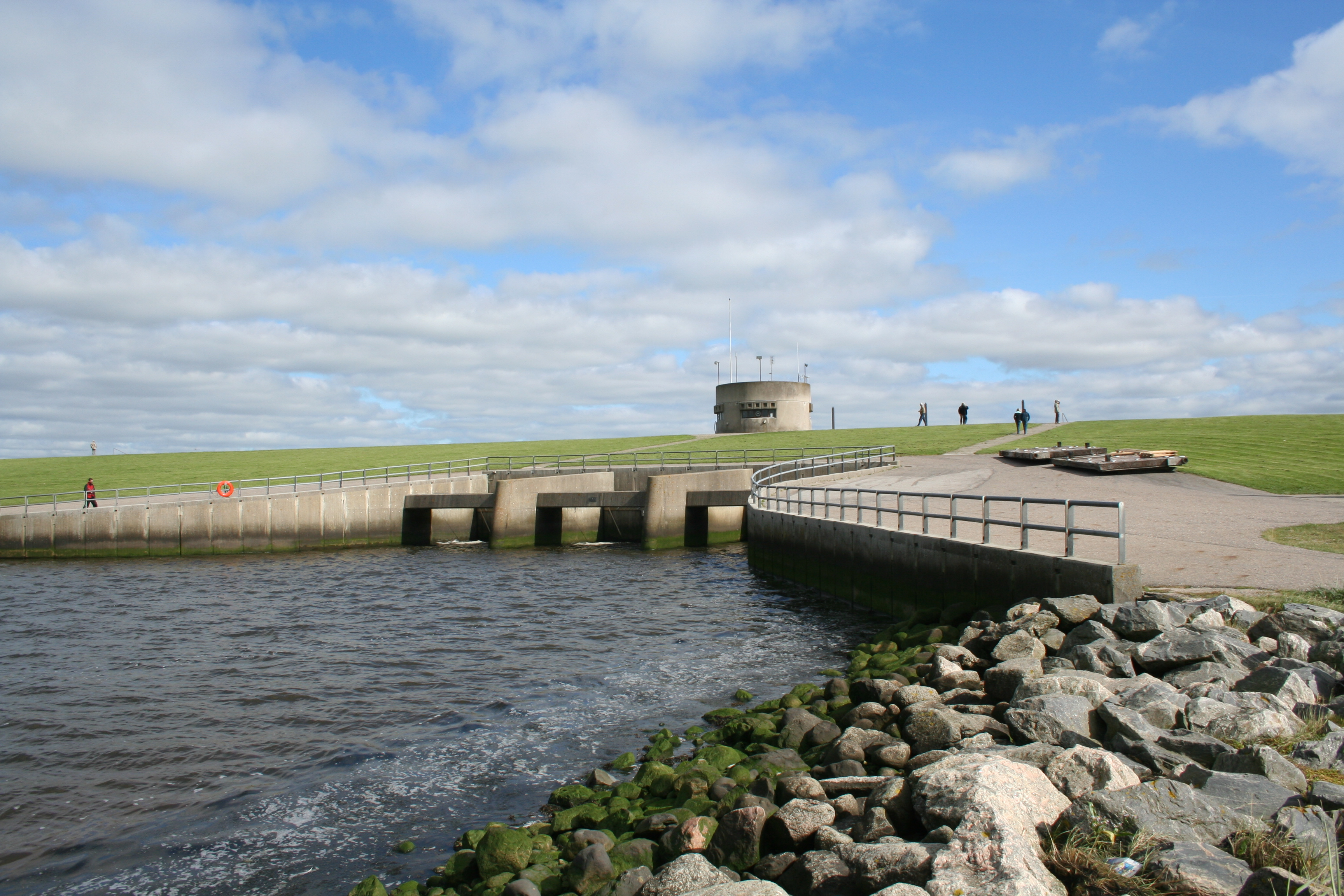 Picture from the new vida sluice in Højer, Denmark.